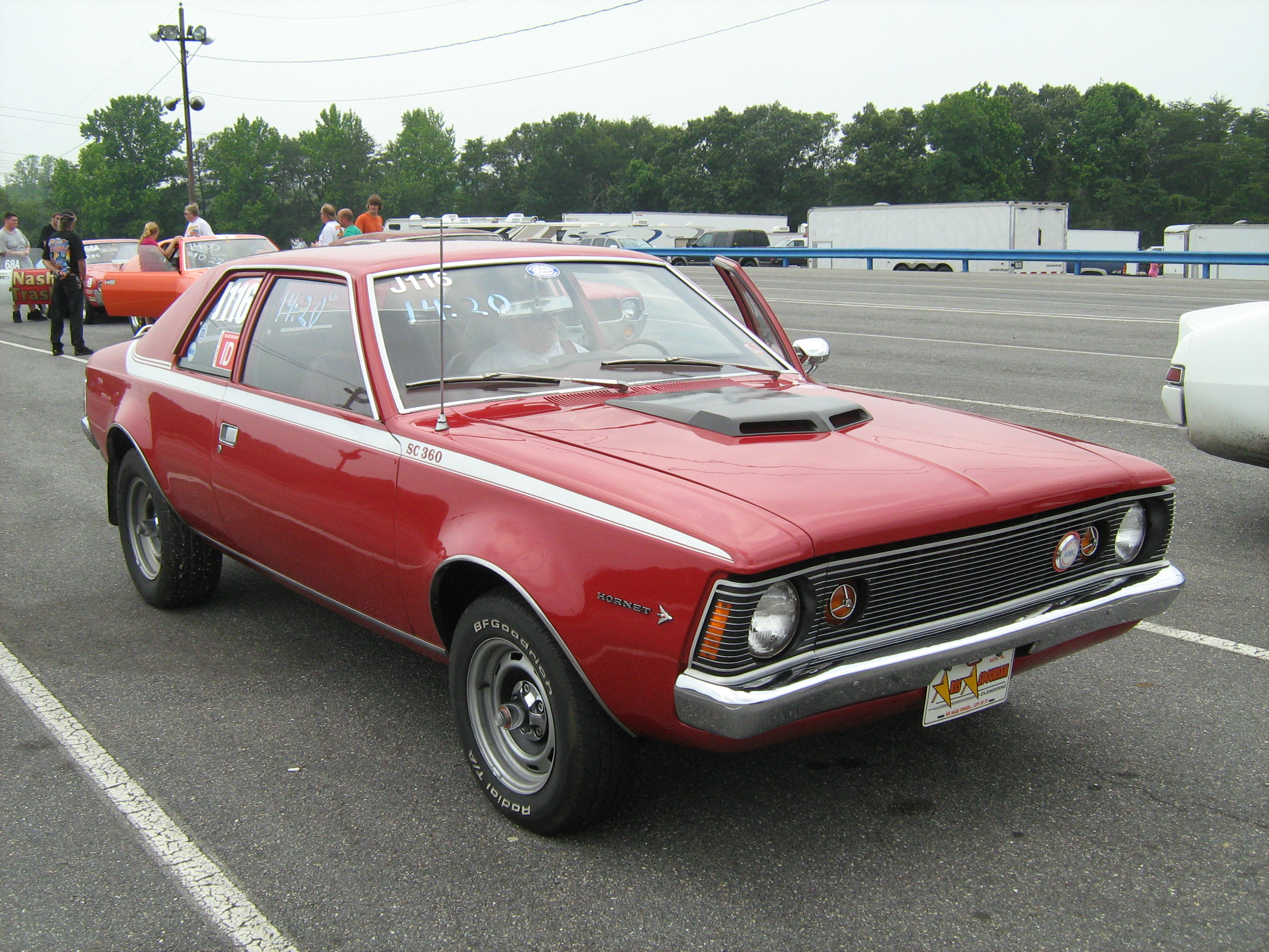 1971 AMC SC 360 Hornet, a compact "muscle car" made by American Motors Corporation (AMC). This two-door sedan was an economical factory-ready (Stock Car) model for on-road performance and drag racing. The standard engine was AMC's 360 cu in (5.9 L) V8. Photograph taken at Potomac Ramblers Club's 2011 all AMC Drag Race Day held at the Capitol Raceway, an NHRA sanctioned, 1/4 mile, asphalt and concrete, drag strip located in Crofton, Maryland.